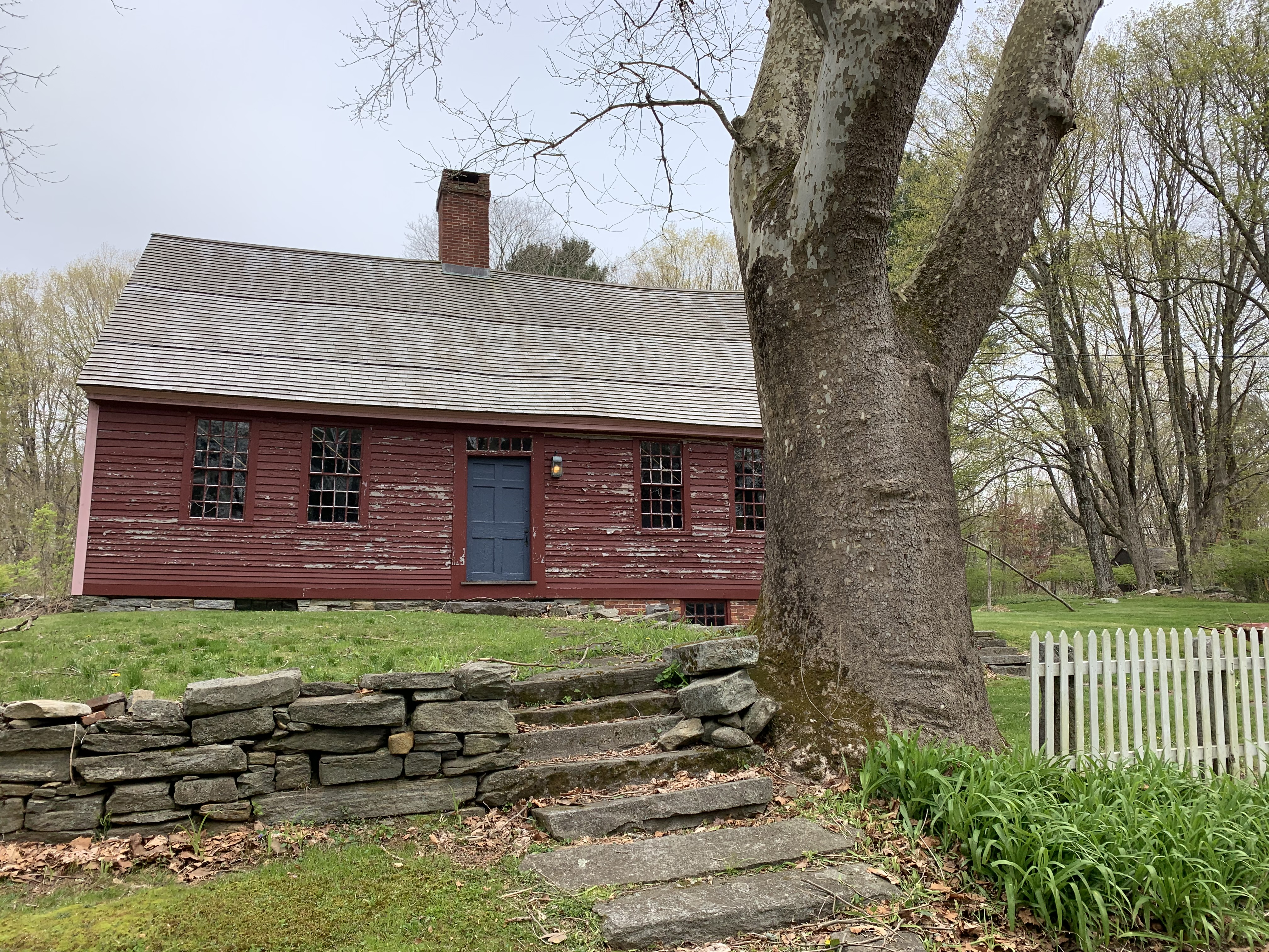 View from Metcalf Road of the Daniel Benton Homestead Museum